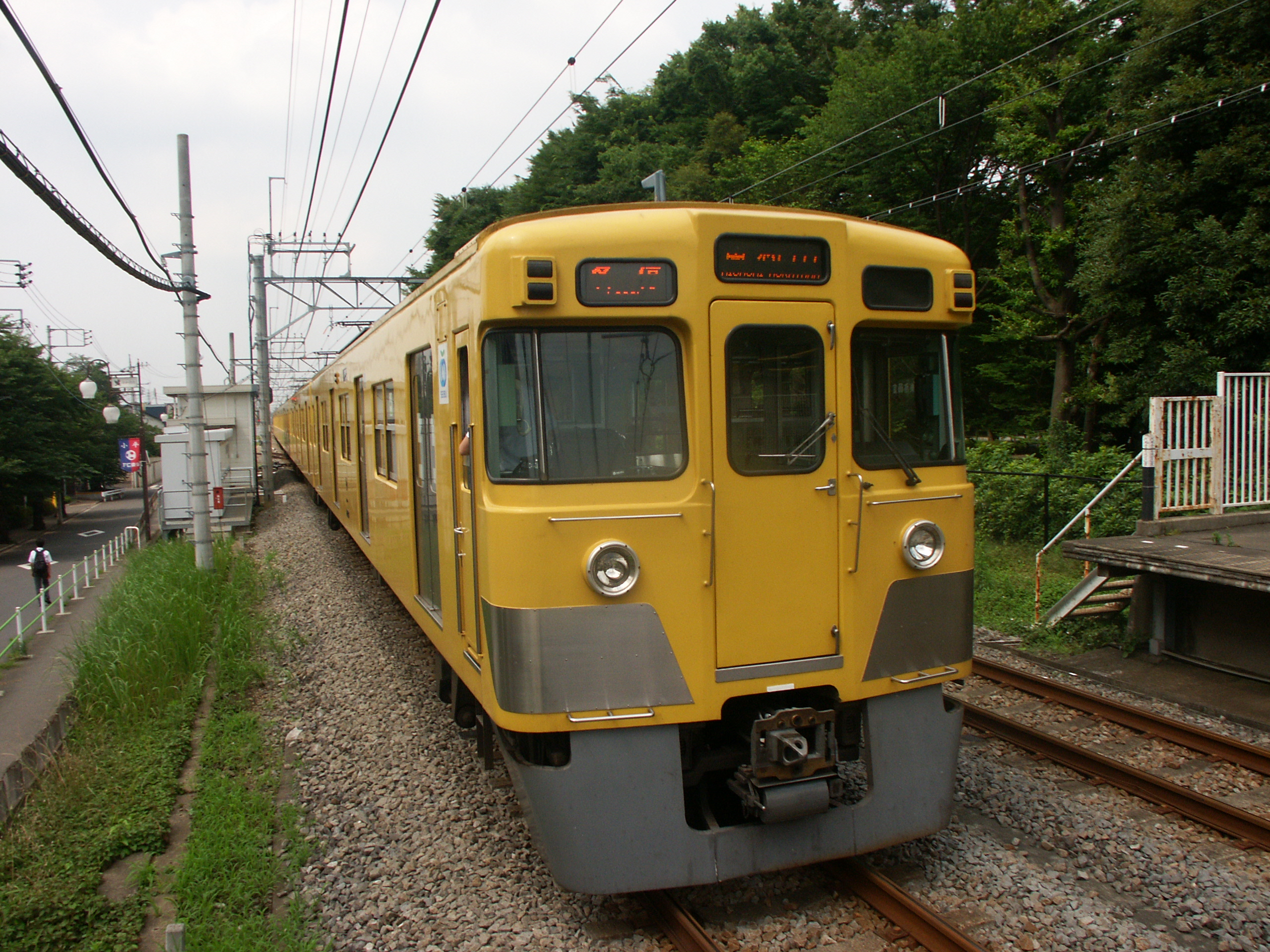 A Seibu 2000 series EMU departing from Takanodai Station on the Seibu Kokubunji Line